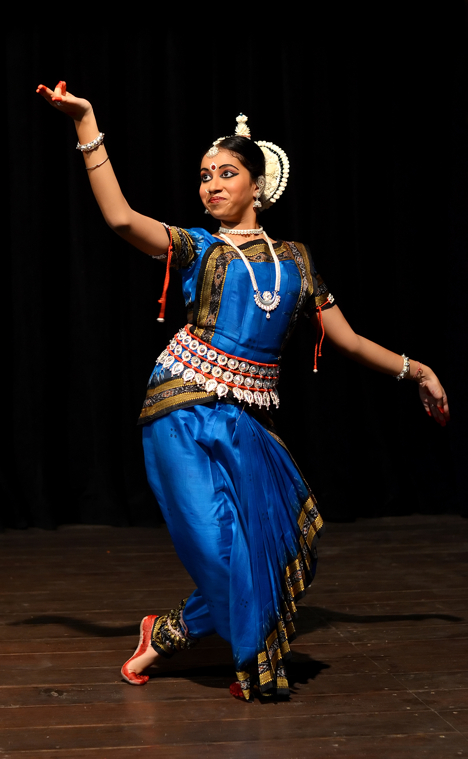 Odissi Perfomance